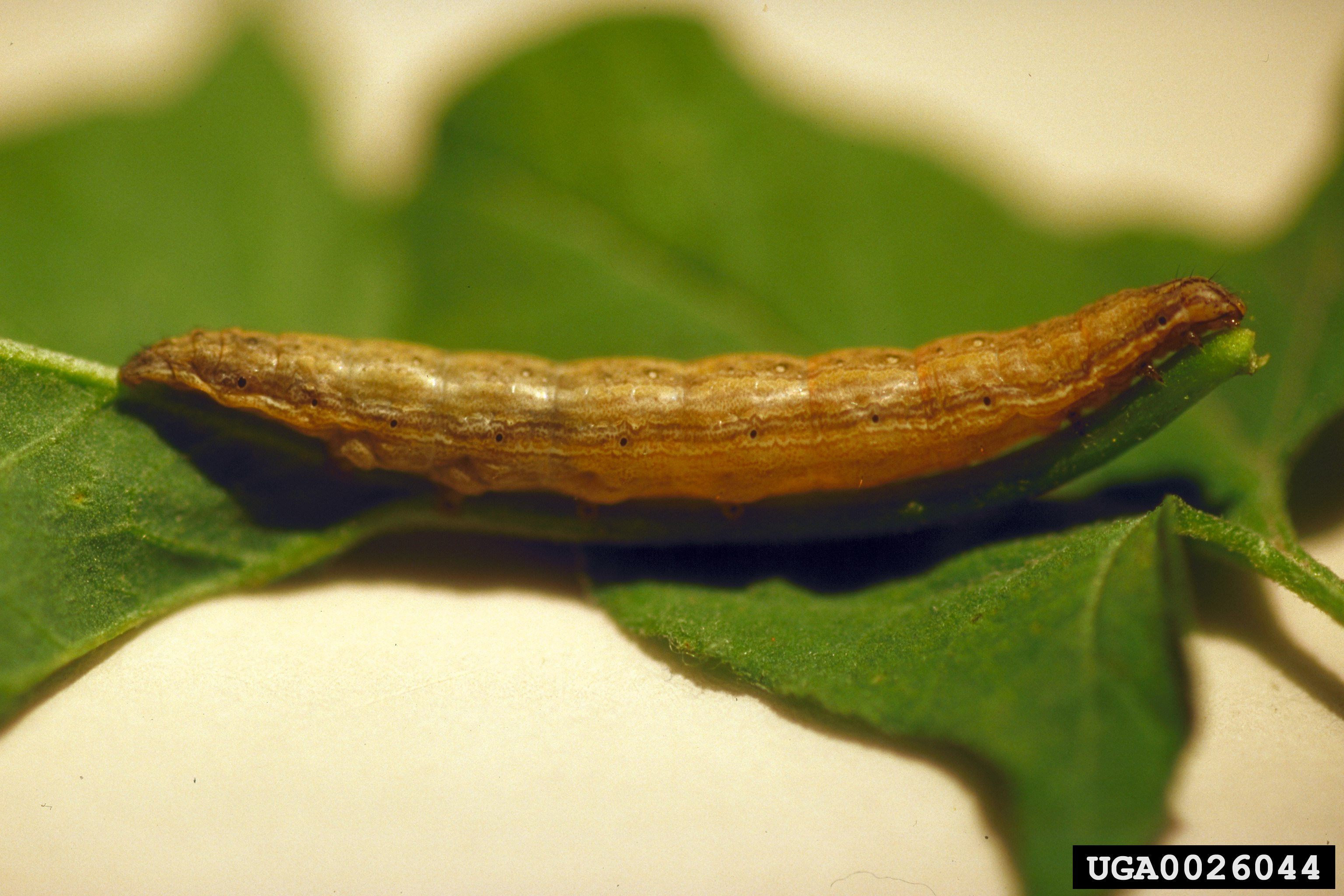 Larva of Tyta luctuosa on hostplant Convolvulus arvensis